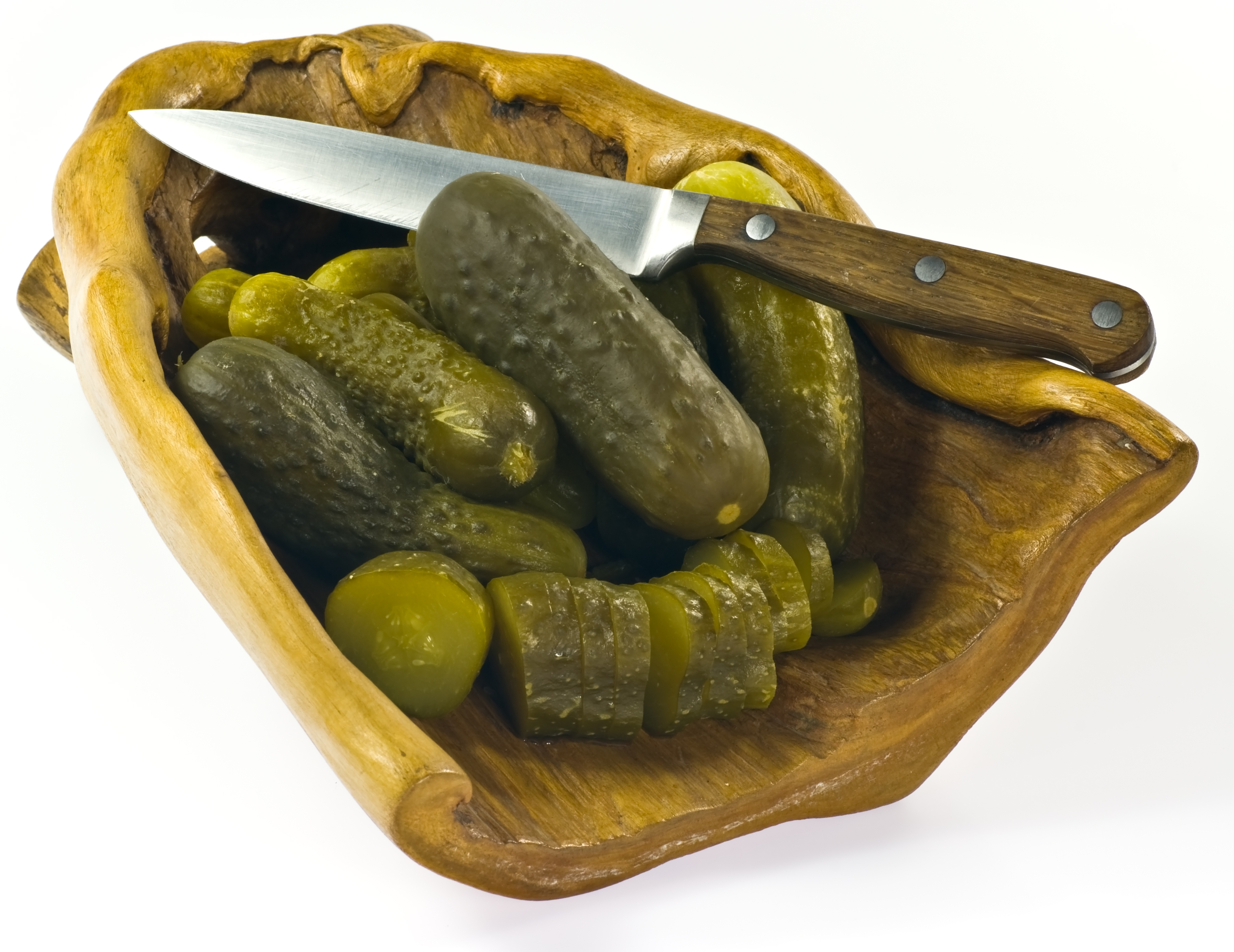 Polish style pickled cucumbers